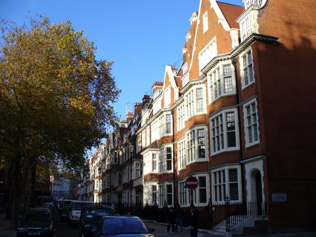 Hornton Street, South Kensington Exclusive 4-storey terraced housing on the north side of Kensington High Street.